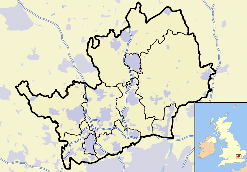 A map of the County of Hertfordshire, England, United Kingdom.